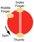 Diagram showing the correct grip for bowling the off-cutter in cricket.